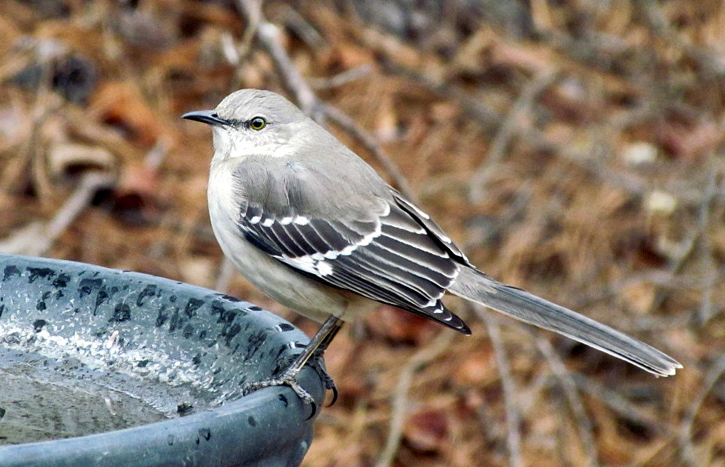 A Northern Mockingbird in Krendle Woods, Cary, North Carolina, USA.